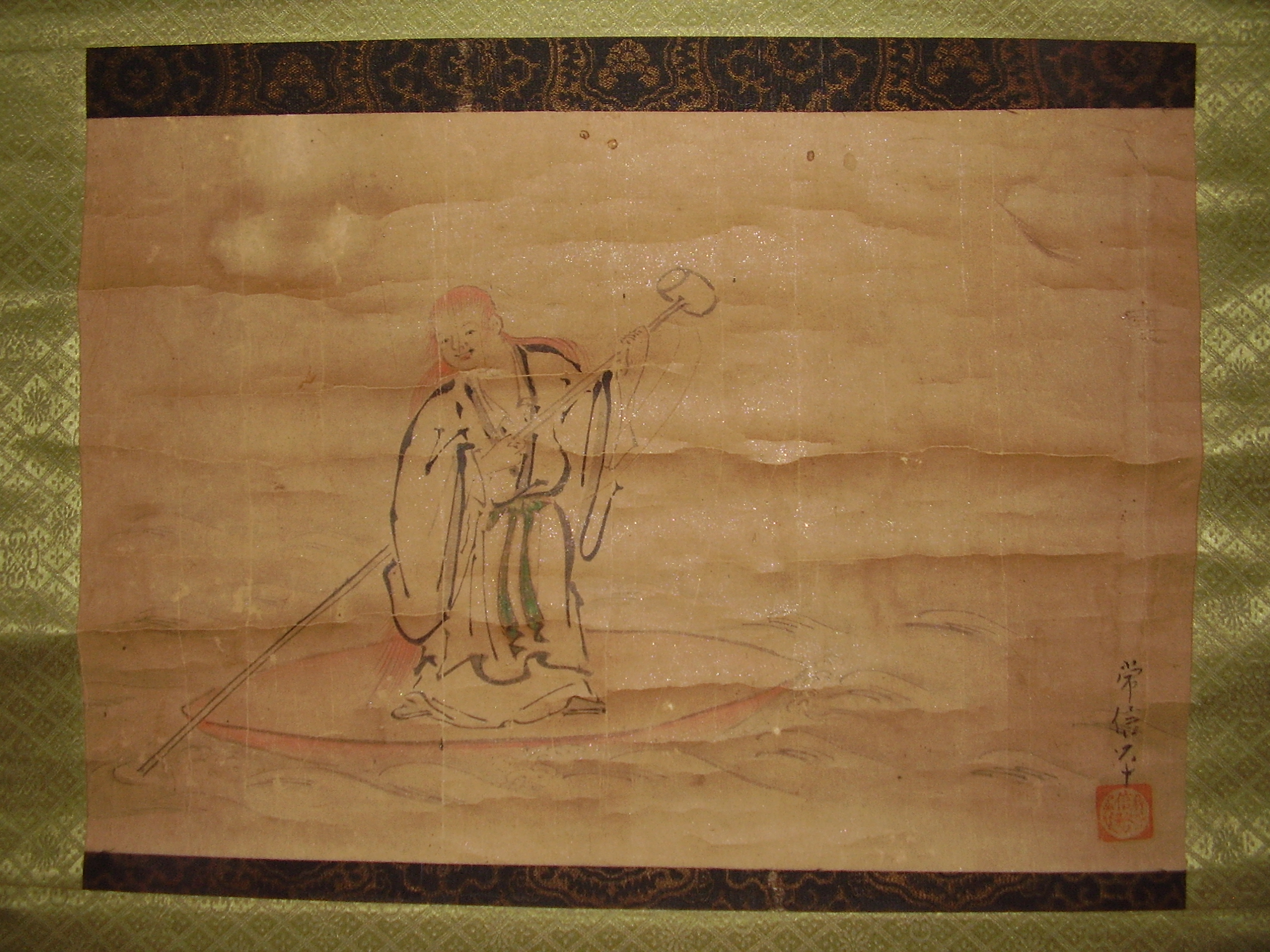 Painting of a Shōjō standing on an over-sized saucer-style sake cup, using a very long-handled sake ladle to pole through a sea of what may be either sake or water. Painting; sumi ink & water colours(?) on paper with (what appear to be) fine flecks of mica. Signed & sealed as by Kano Tsunenobu (1636-1713); unverified, plausible (research needed!). Painting is loosely "Kano school", & (at latest) 19th century or earlier (to accredited artist's lifetime). Private collection; fam. Wittig et cie. Reference shot - scans pending note to mediawiki maintainers; i was writing a complete description in this box, when i accidentally hit the link to "permission" on the main form, was booted onto that page, hit the back button to return to my work, & found the form was blank, except for the name i'd chosen for the image, which was no longer associated with a file... it would be good if there was a way to prevent data-loss like this!